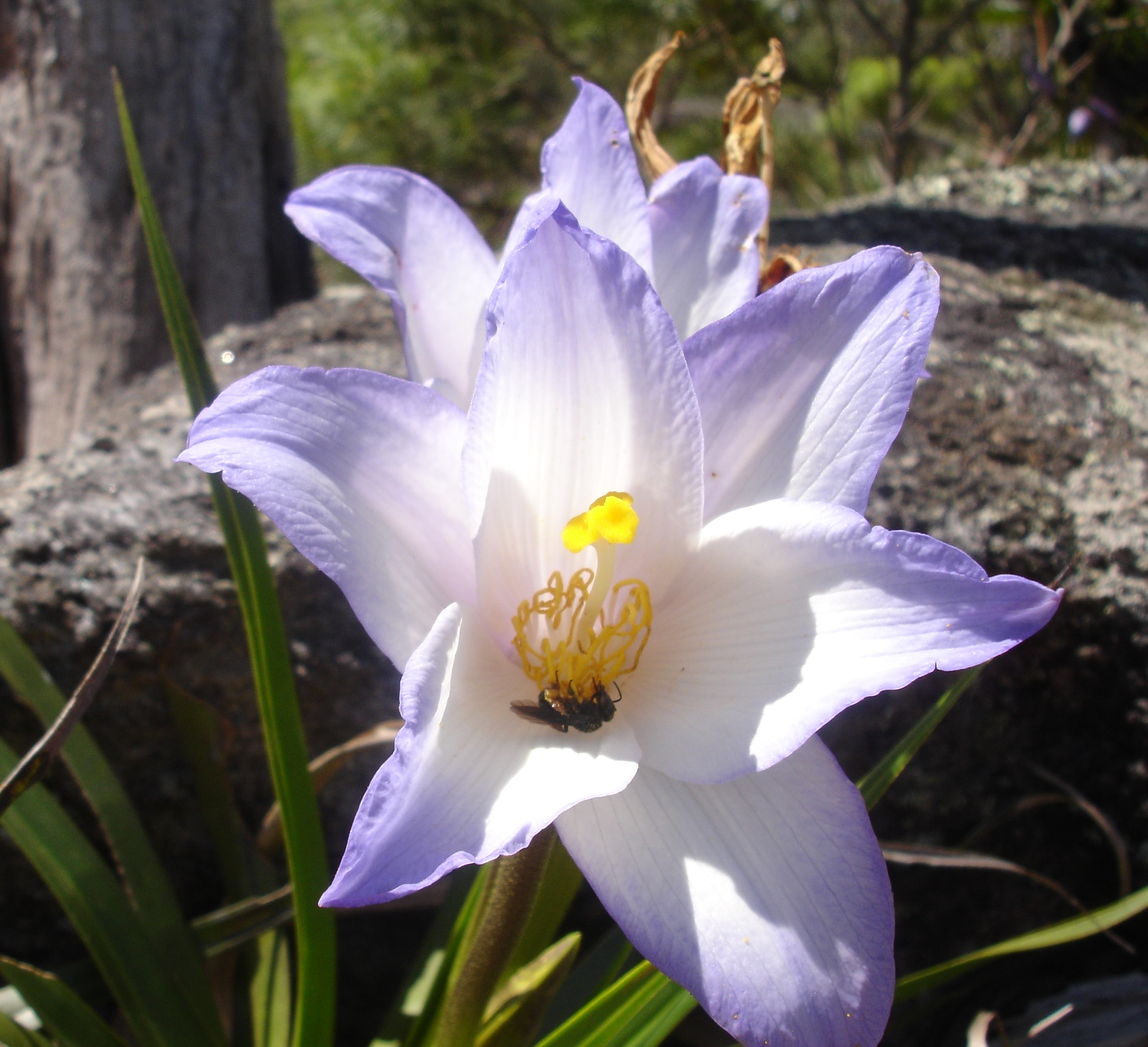 A Flower on the Ibitipoca State Park, Minas Gerais State, Brazil